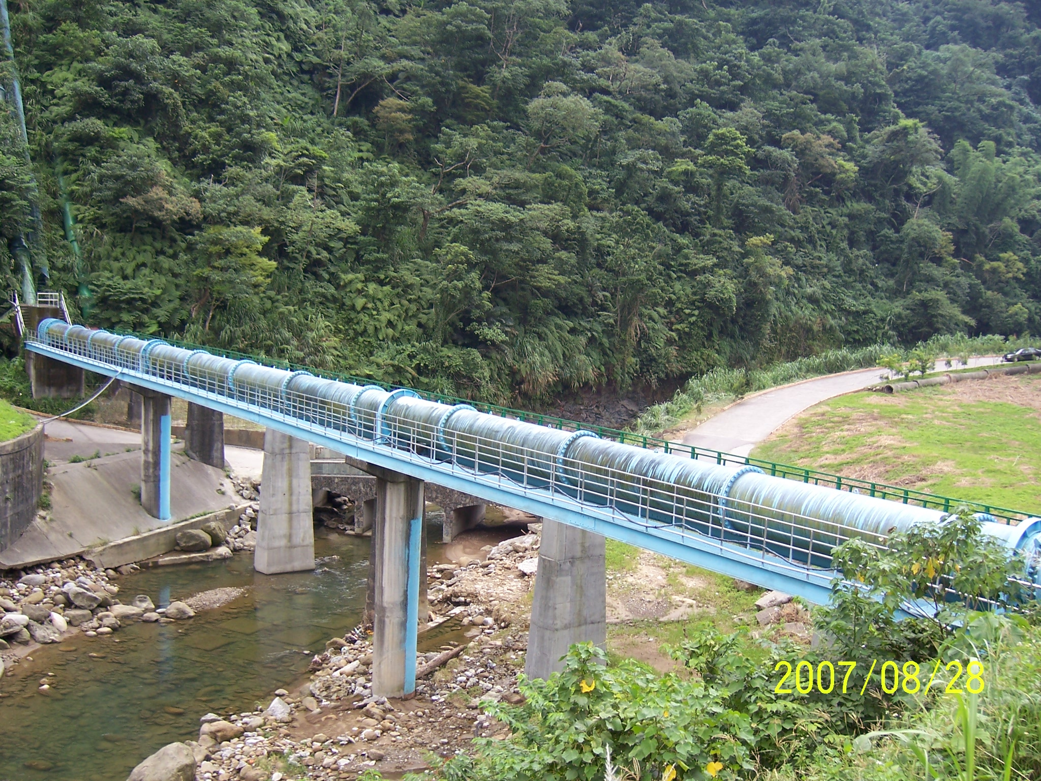 Bailengzhun is a trench of Shinshe(Xinshe) Township in Taichung County,Taiwan.